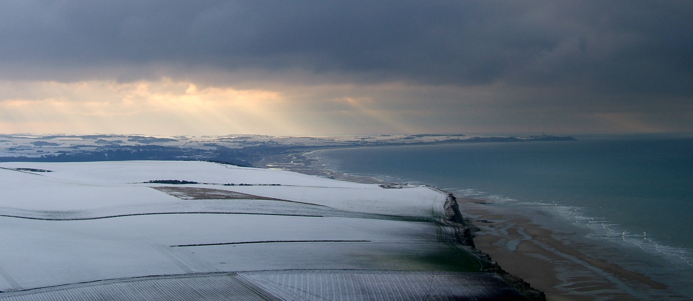 Cap Blanc Nes in northern France (between Calais and Wissant) in December 2005.